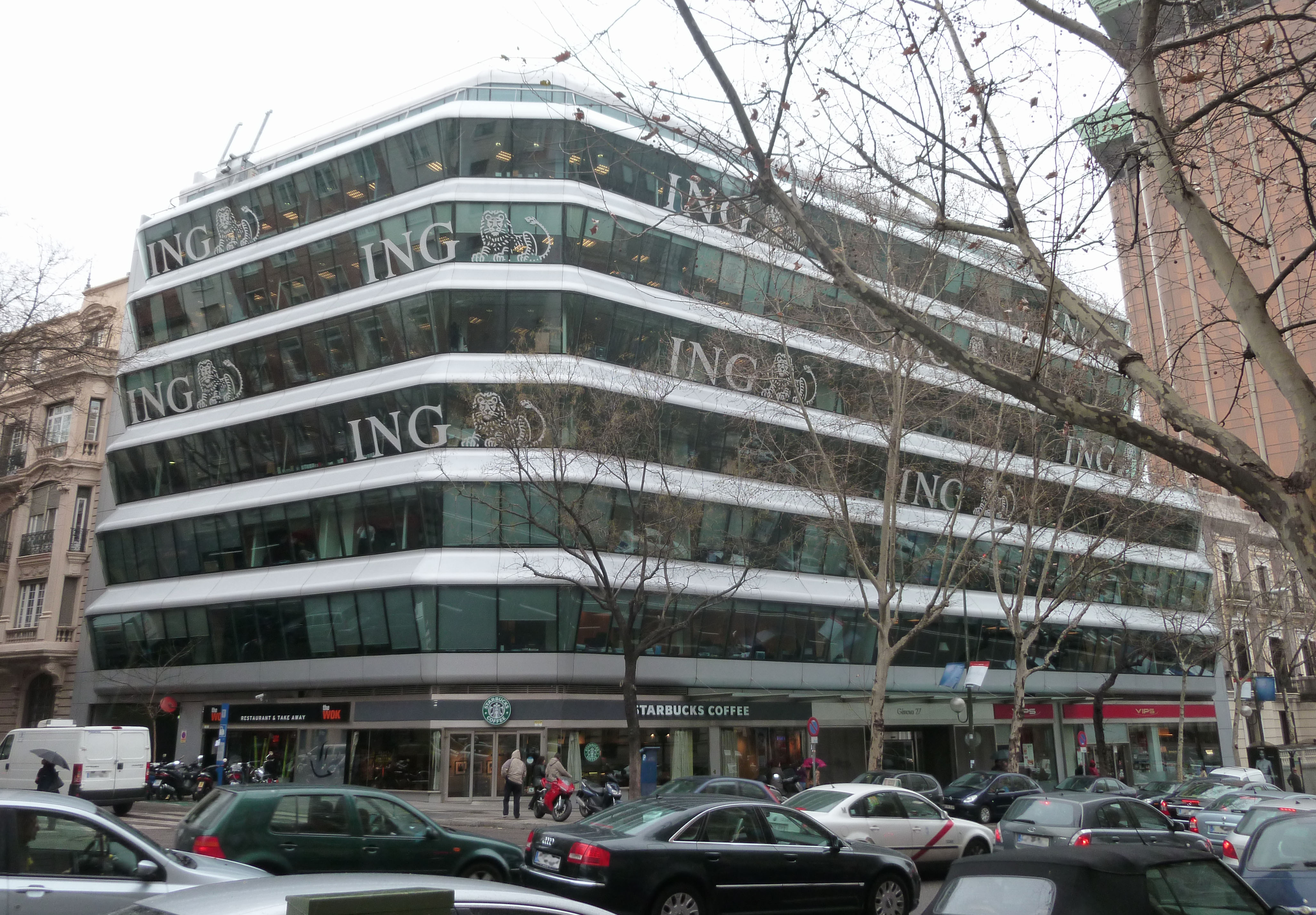 Office building at 27 Calle de Génova (street) in Chamberí district in Madrid (Spain). Designed by Antonio Lamela and built in 1974. Alterations made in 2005 by Estudio Lamela firm.